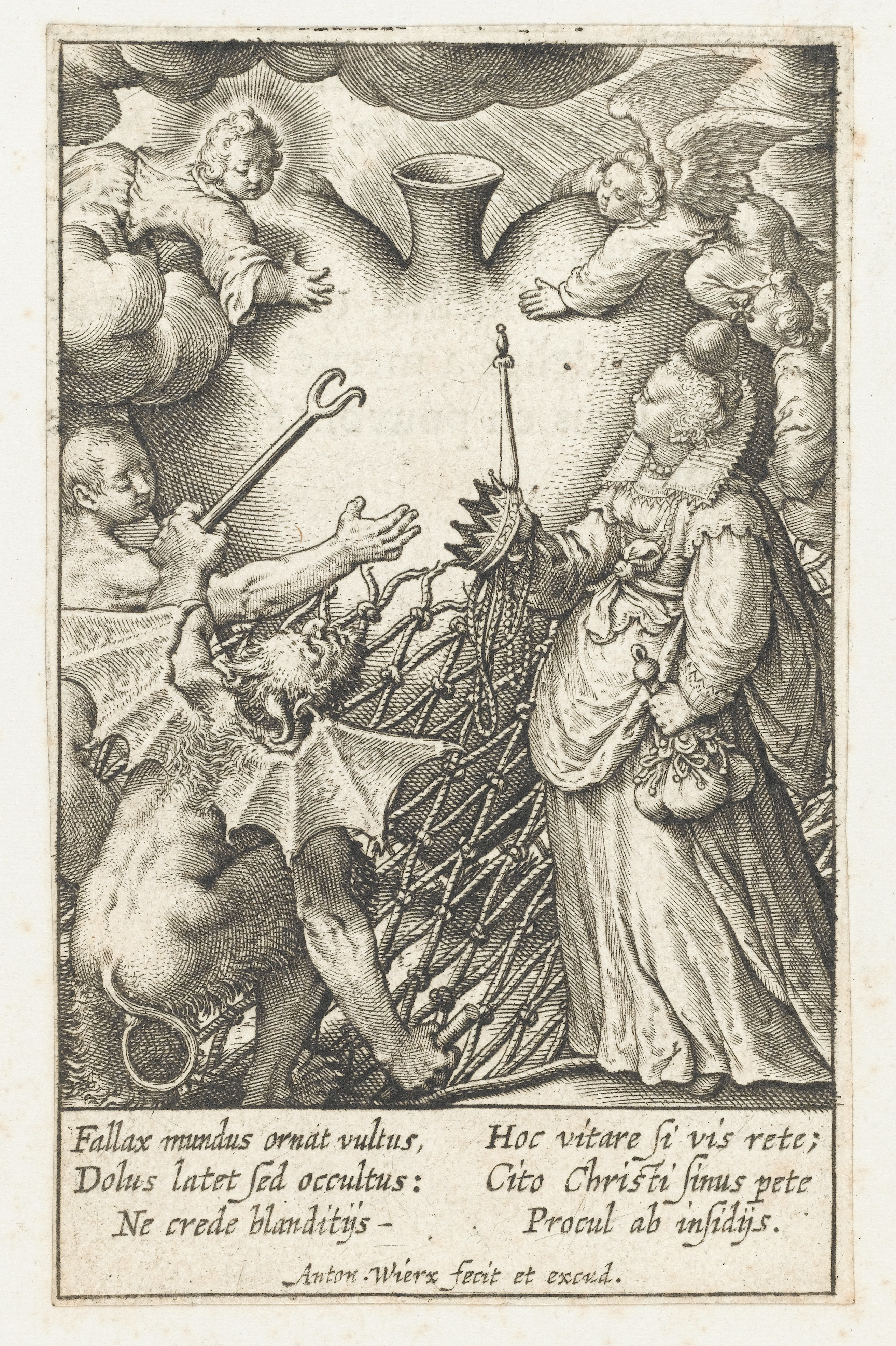 The Christ Child preserves the believer's heart from a snare in which the devil tries to trap it, and from worldly blandishments. Engraving by A. Wierix, ca. 1600. Iconographic Collections Keywords: Antonie Wierix